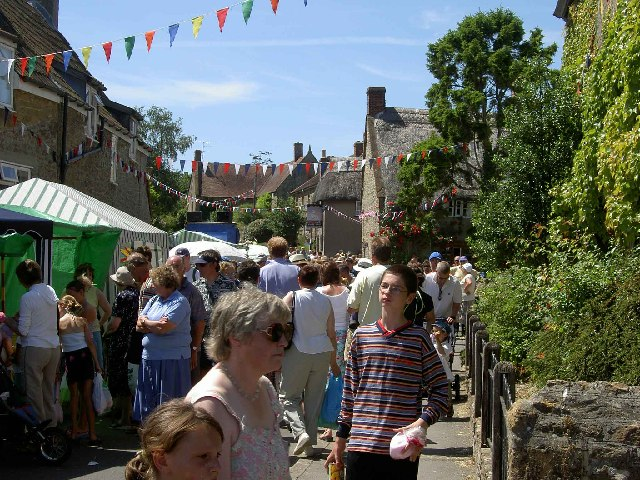 Yetminster high street during the annual fair day. Yetminster - home of the Yetties folk band